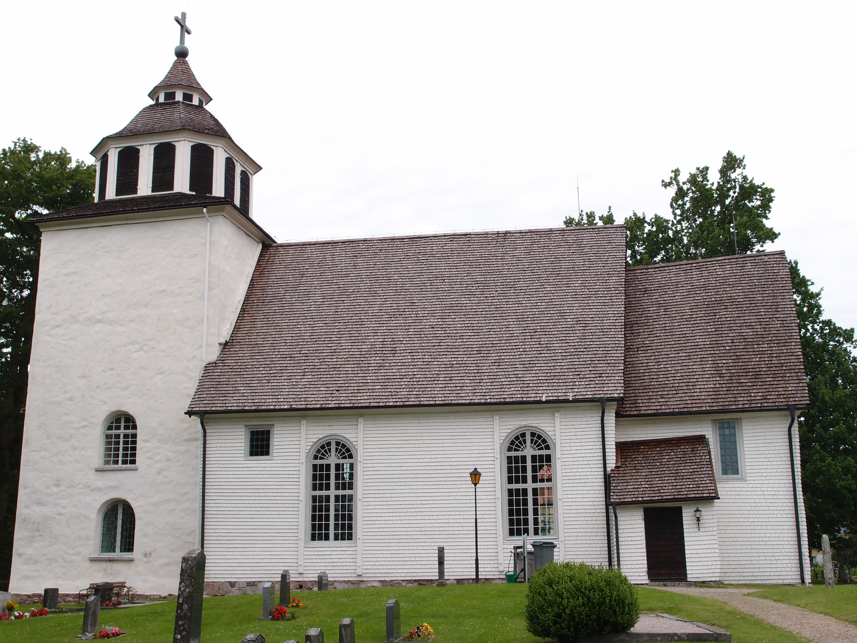 Stenberga Church